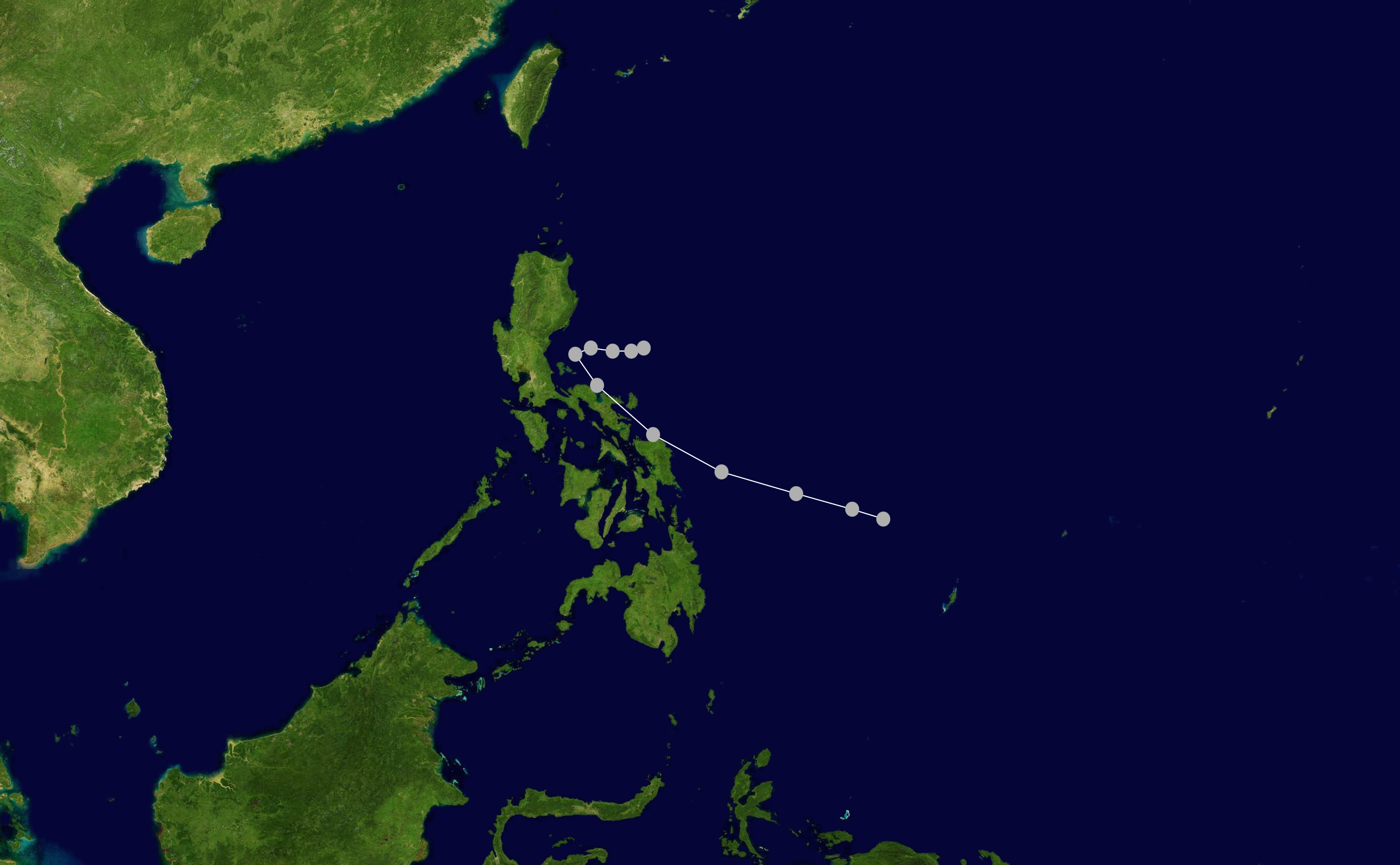 Track of 21-W from November 4, 1939 through November 7, 1939. Due to the age at witch this storm was observed from, one cannot rely on this track to be 100% accurate, but rather just a reference as to where the storm happened and the relative direction it traveled.